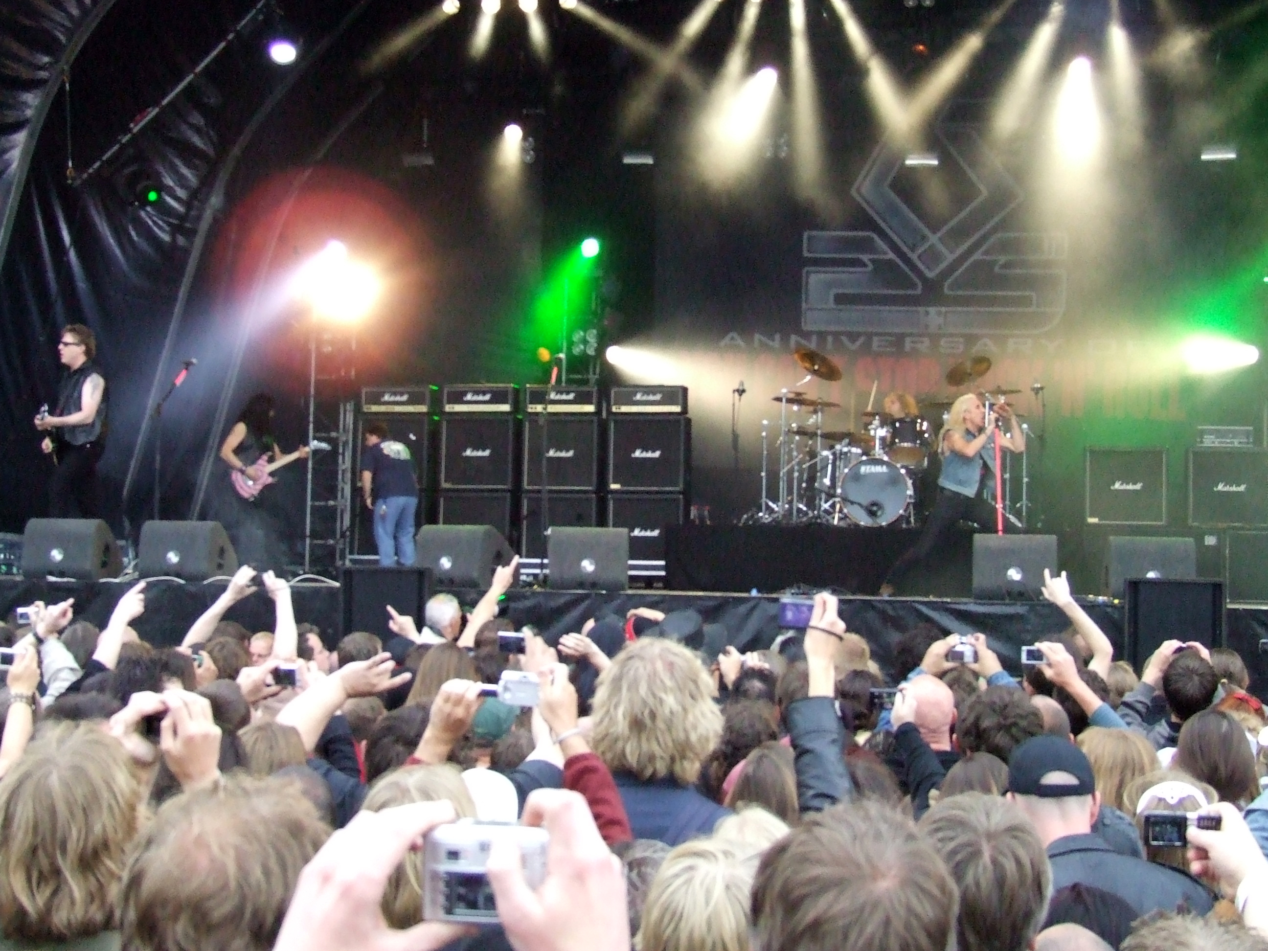 Twisted Sisters performs at Arrow Rock festival 2008 at Nijmegen, the Netherlands